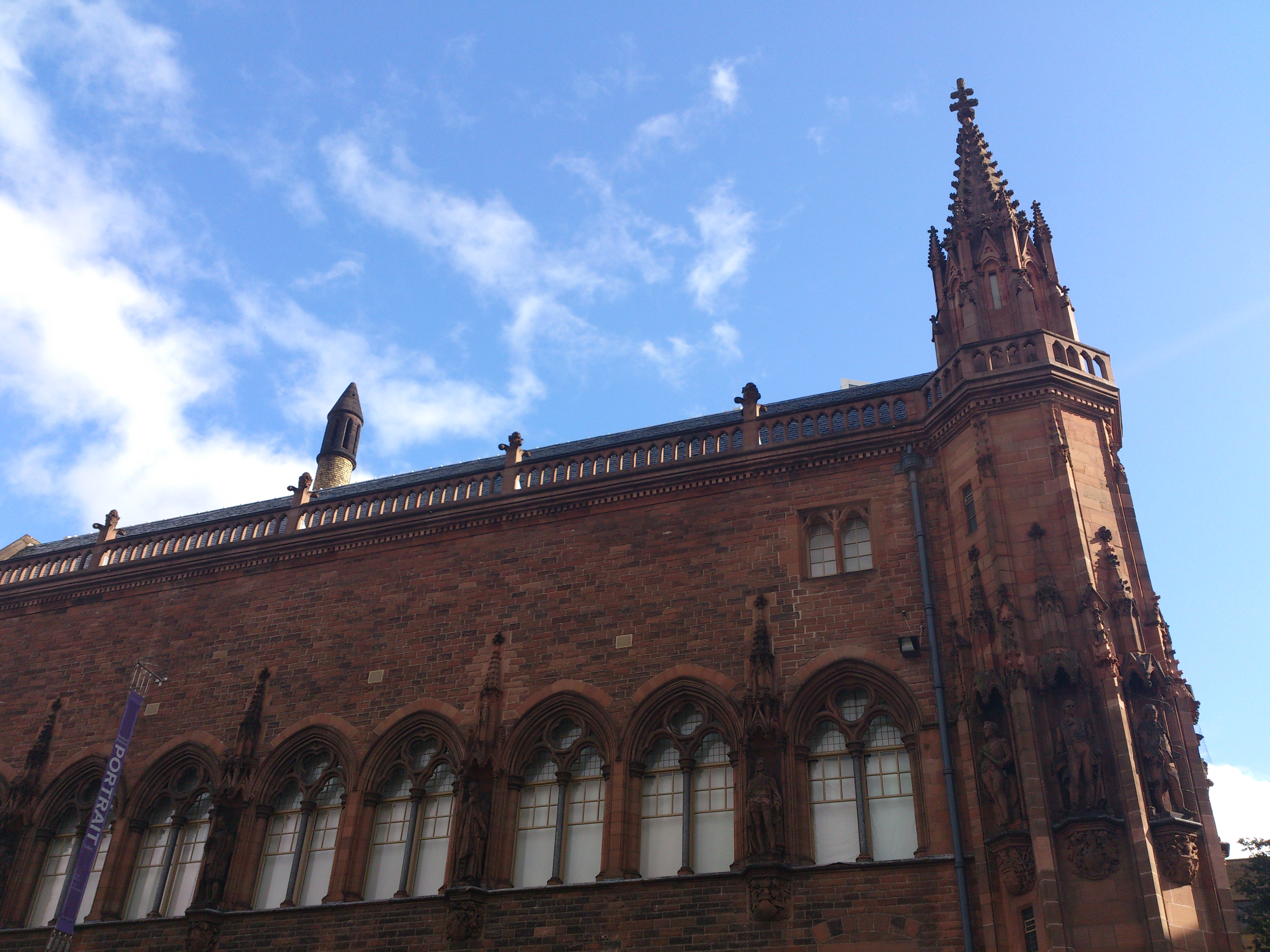 The Scottish National Portrait Gallery